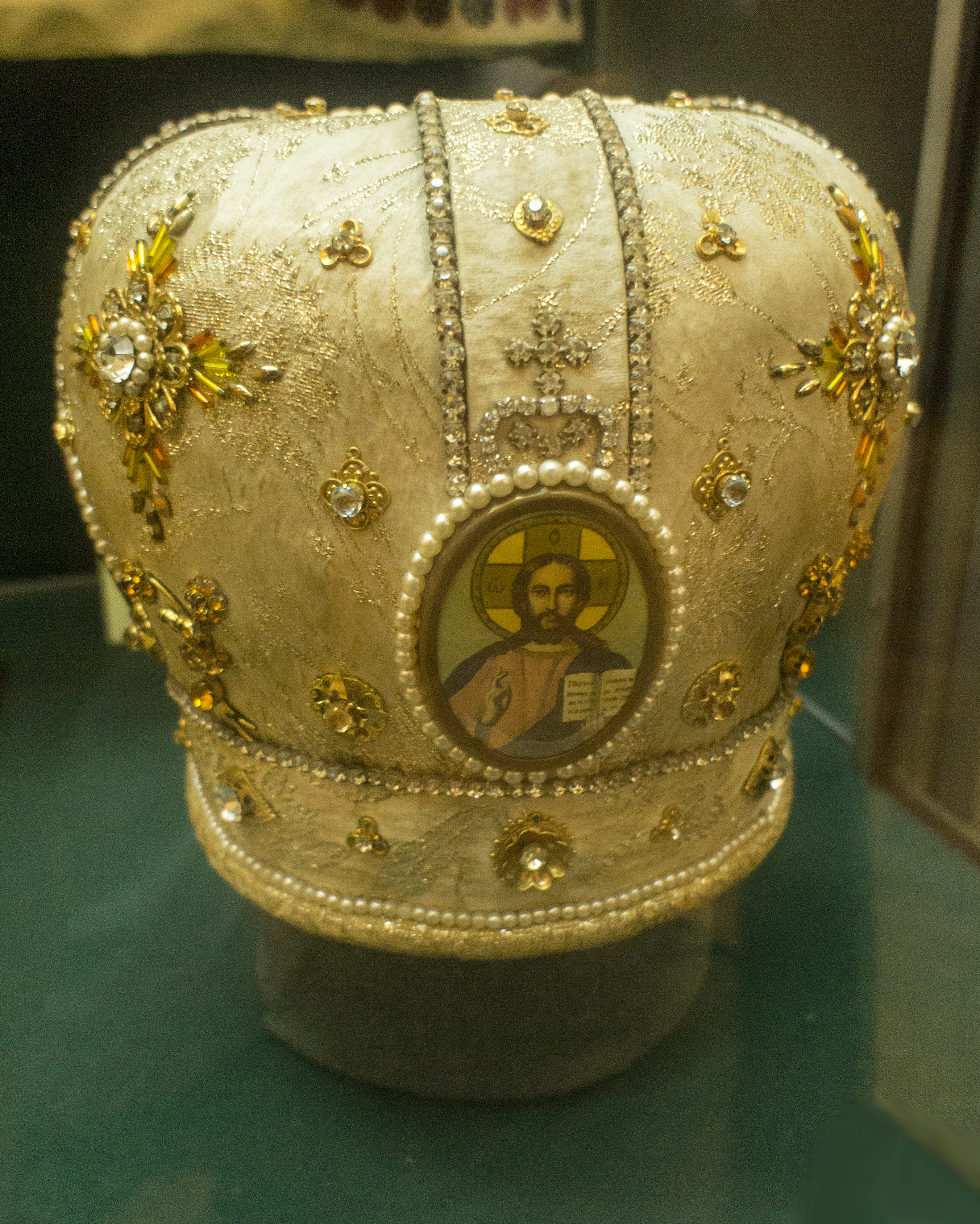 Mitra of Orthodox clergy from 80. years XX century. Museum of Religion in Lvov, Ukraine. Српски (ћирилица): Митра православног свештеника из осамдесетих година 20. века. Музеј Религије у украјинском граду Лвов.